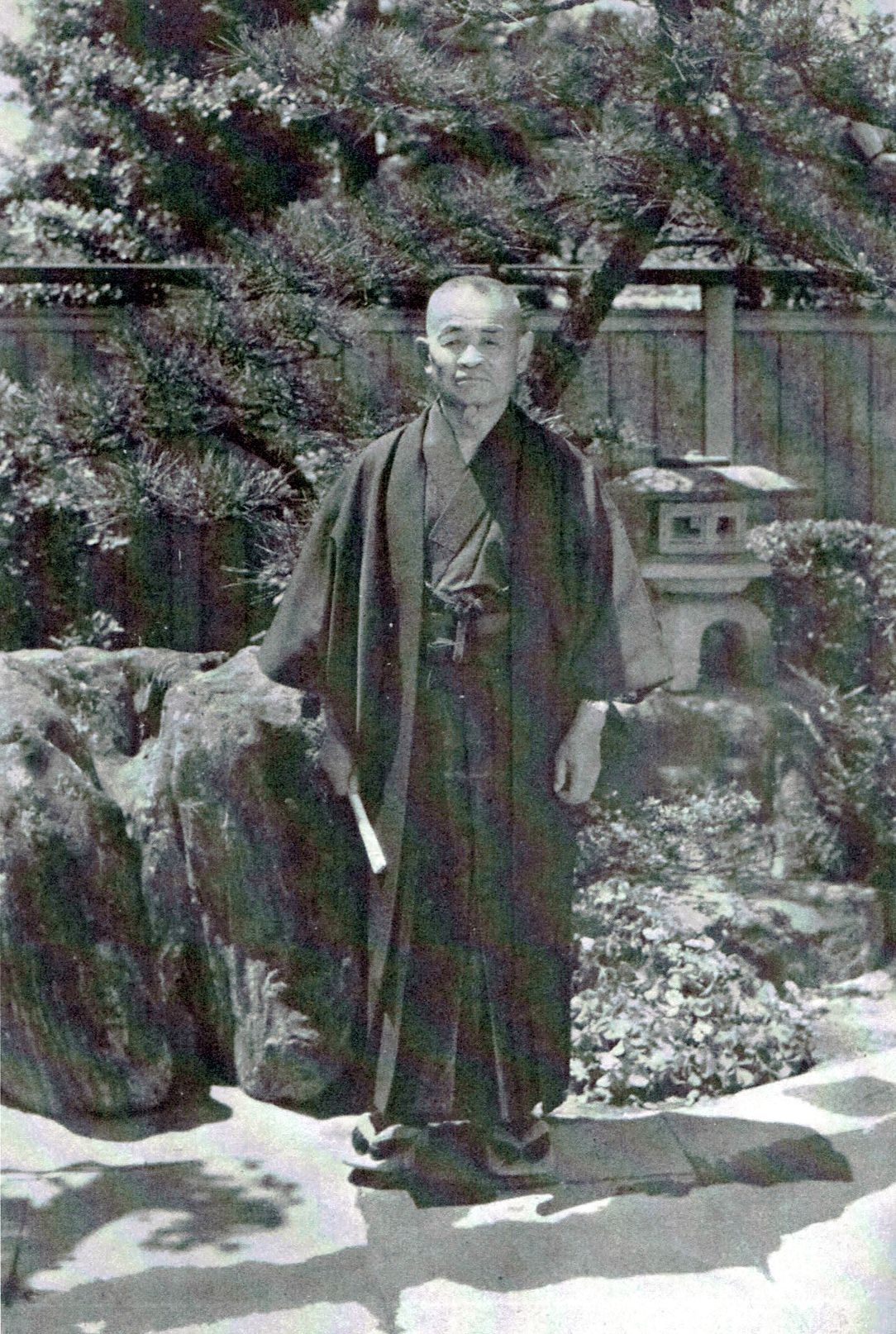 Ichitaro Kanie